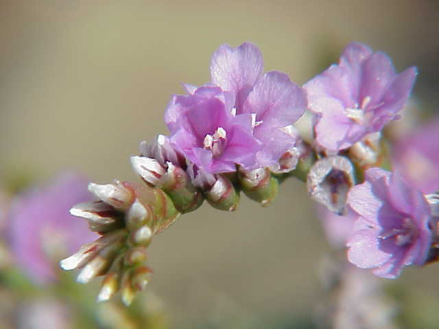 Species: Limonium binervosum Family: Plumbaginaceae Image No. 2